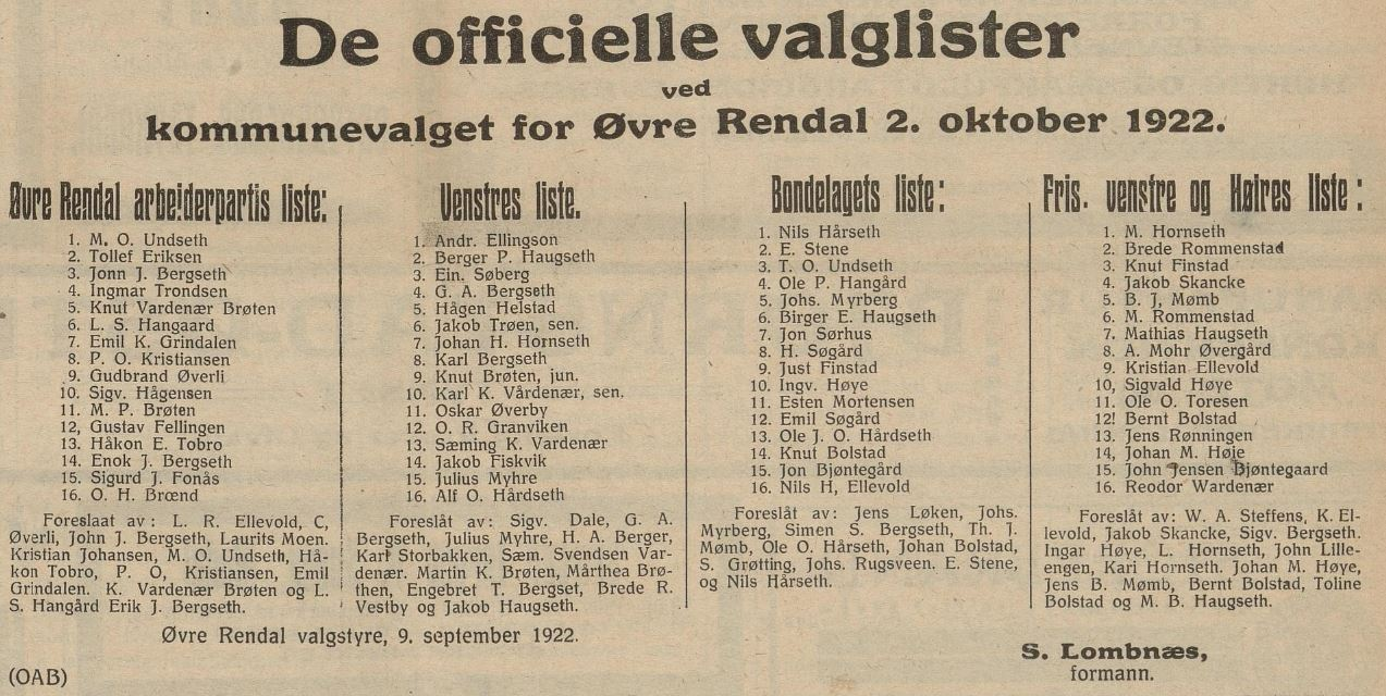 Lists and candidates for local elections in Øvre Rendal 1922